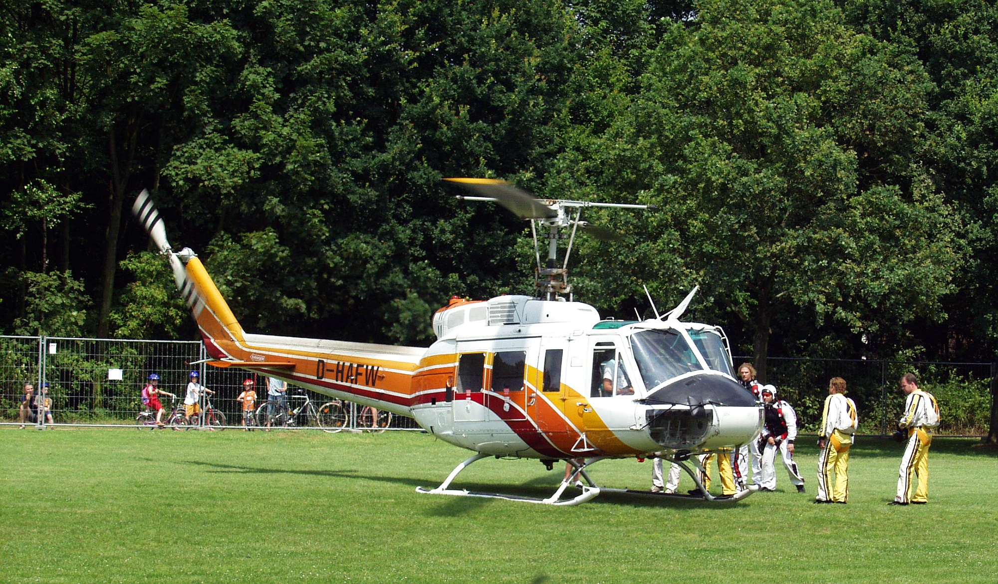 Helicopter Bell 205 A-1, used for parachutists during World Games 2005, Duisburg, Germany for the parachuting-competitions.